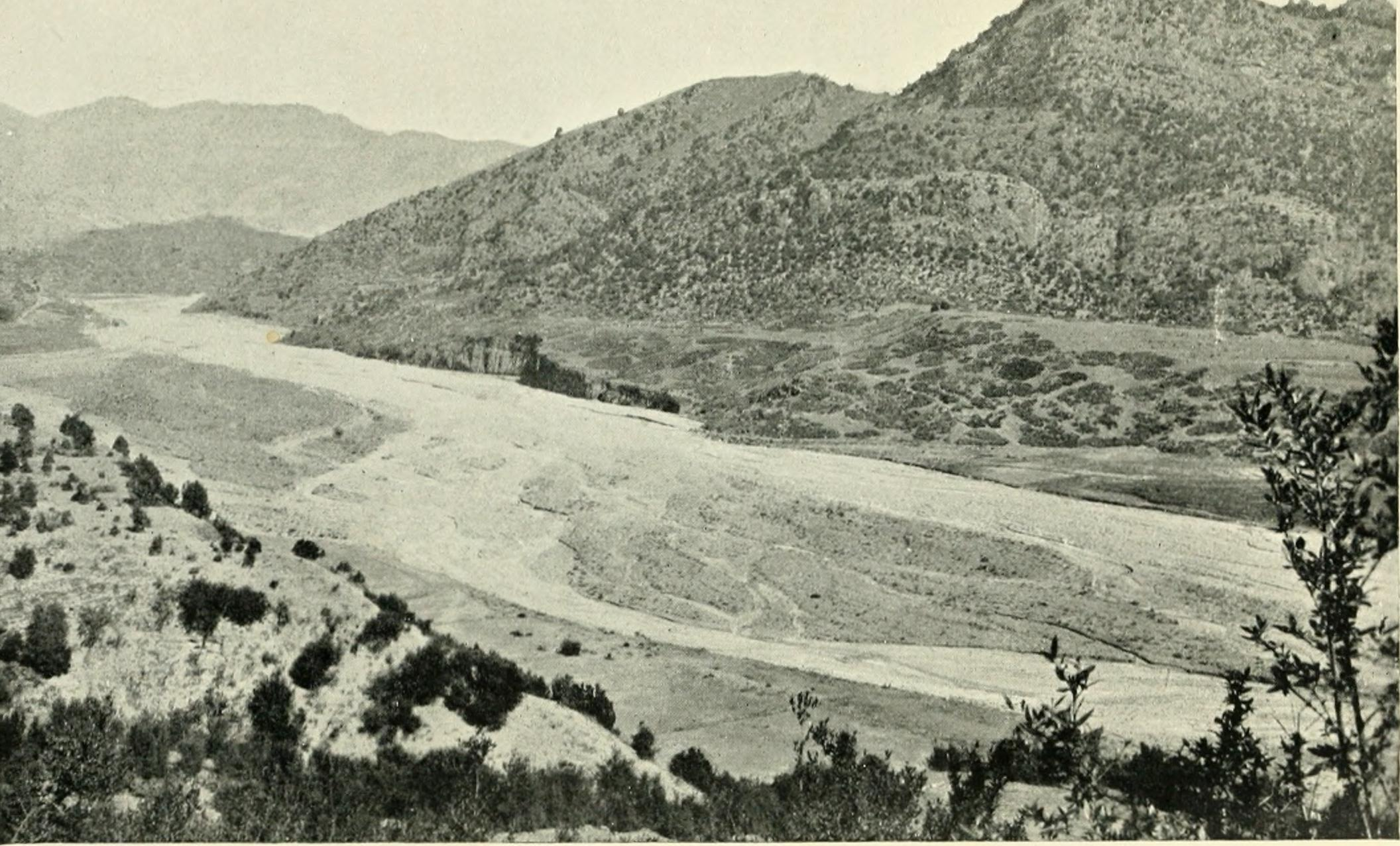 Title: Campaigns on the North-west Frontier Year: 1912 (1910s) Authors: Nevill, Hugh Lewis, 1877-1915 Subjects: India -- History British occupation, 1765-1947 North-west Frontier Province (Pakistan) Publisher: London : J. Murray Text Appearing Before Image: a tribe called theDawaris. The territory belonging to this tribe liesbetween the Darwesh Khel Waziris to the north andthe Mahsuds to the south ; it is entered by three passesfrom British territory—the Tochi Pass the best known. 0- Text Appearing After Image: THE DAWARIS 71 the Baran Pass, and the Khaisora Pass.* The inhabi-tants are chiefly cultivators, who wander little beyondthe limits of their own country, and show few of thewarlike qualities which characterize their Waziri neigh-bours to the north and south. The first occasion on which the Indian Governmentcame in contact with the Dawaris was in 1851, when thelatter took part in an attack on one of the border posts,but were driven off with heavy loss. After this littletrouble arose until 1871, when the Dawaris lent theirassistance to the Waziris in acts of hostility towards theIndian Government. As a punishment for their com-plicity in these outrages the Dawaris were ordered topay a fine, but half of the tribe not only refused to complywith this demand, but sent an insulting letter to theBritish authorities, in addition to treating the envoysdespatched to them with great indignity. Brigadier-General C. P. Keyes, commanding the Punjab FrontierForce, was therefore ordered to proceed wit